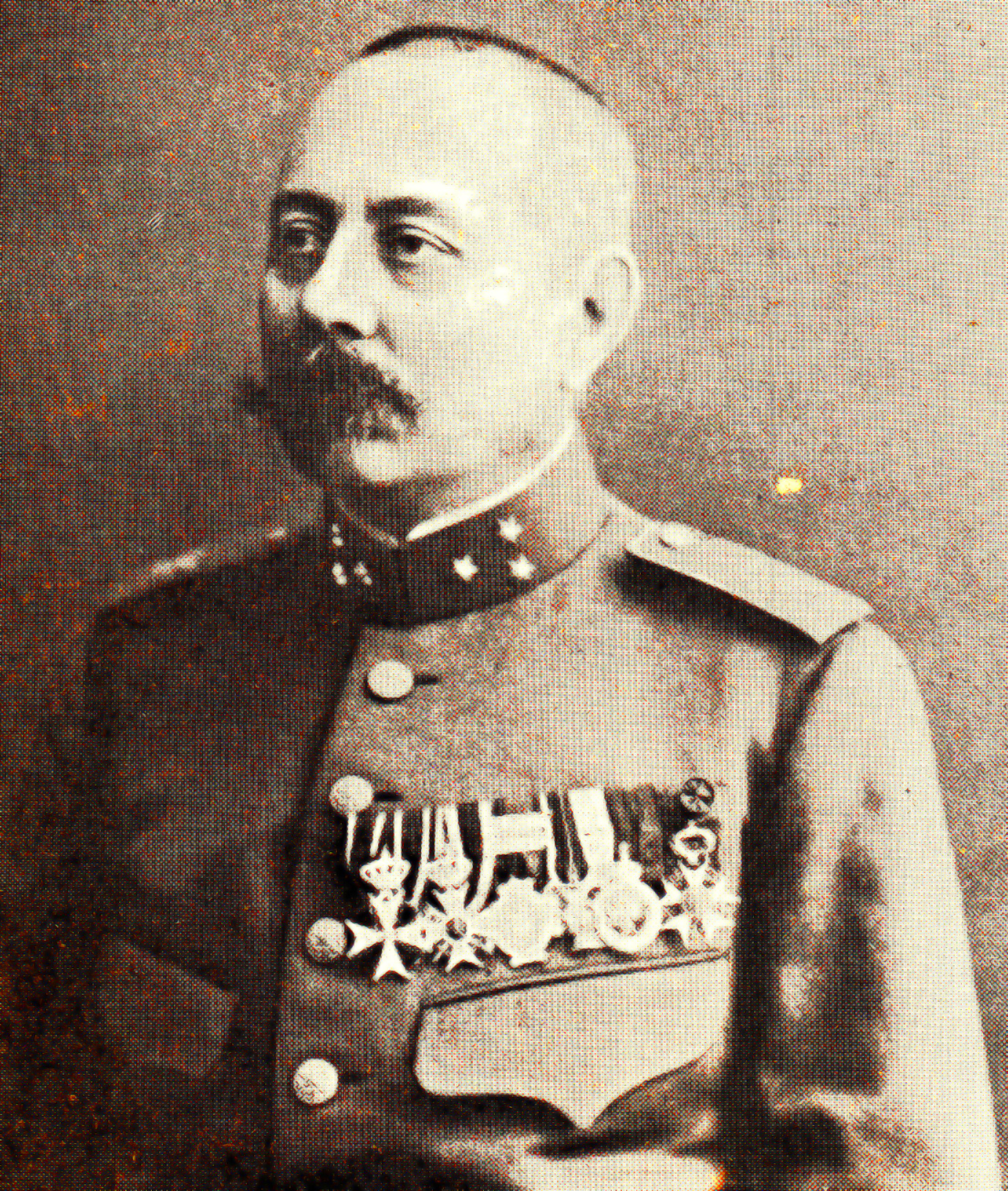 Thomson